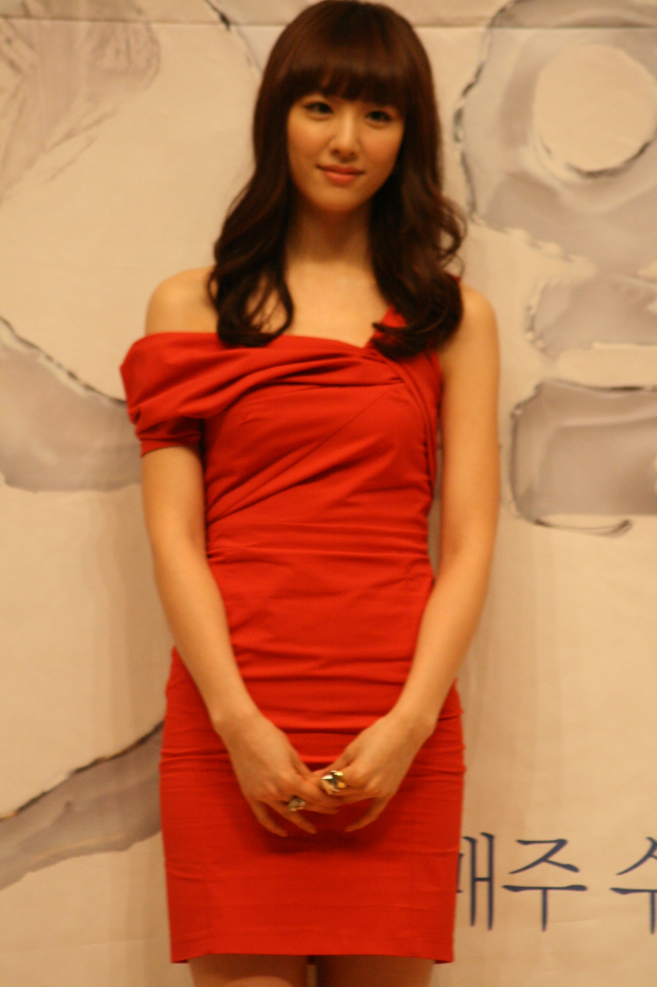 Seo Ji-hye at the press conference for 49 Days, March 2011